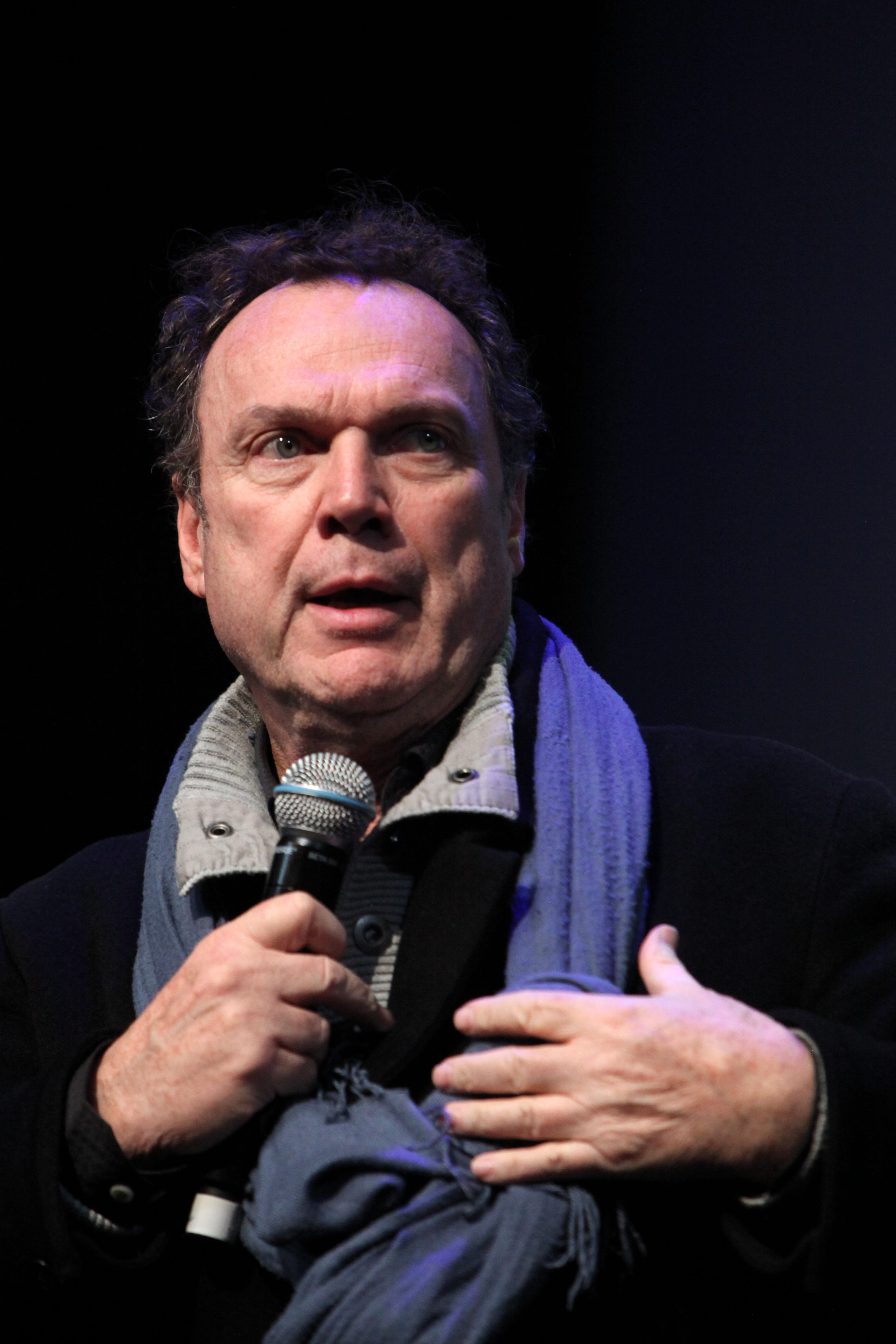 Portrait of Julien Lepers at Polymanga 2016